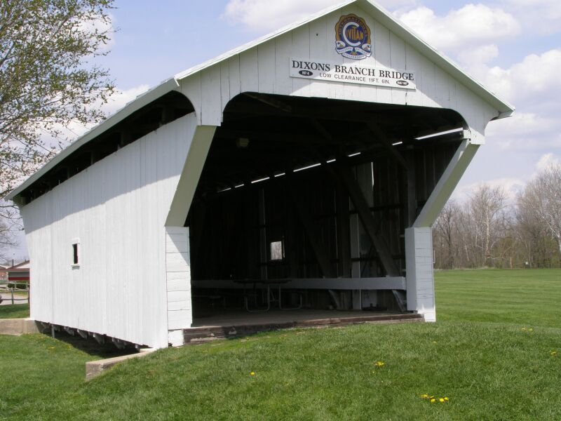 Dixon Branch Bridge, Lewisburg Town Park, moved from 1/4 mile